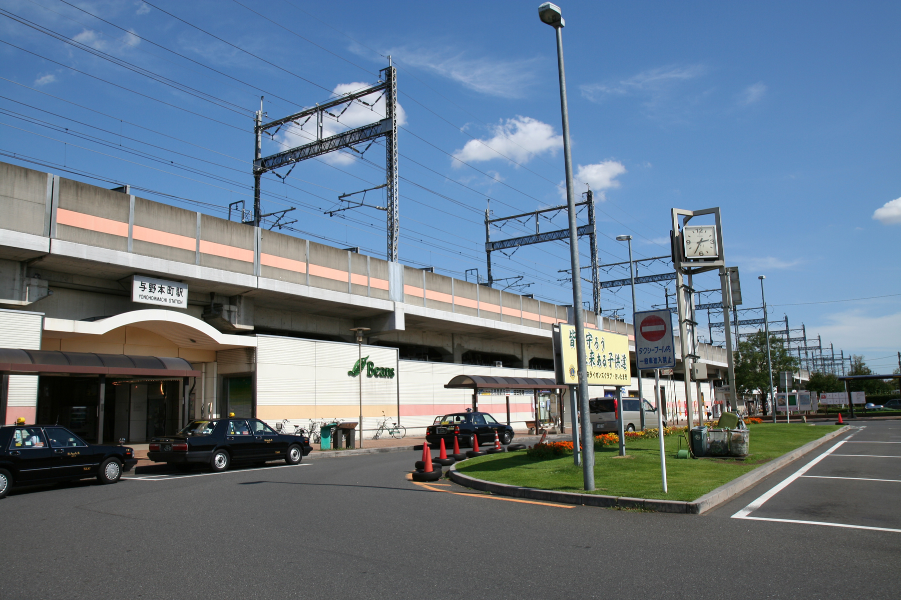 West exit of Yonohommachi Station on the Saikyo Line in Saitama Prefecture, Japan